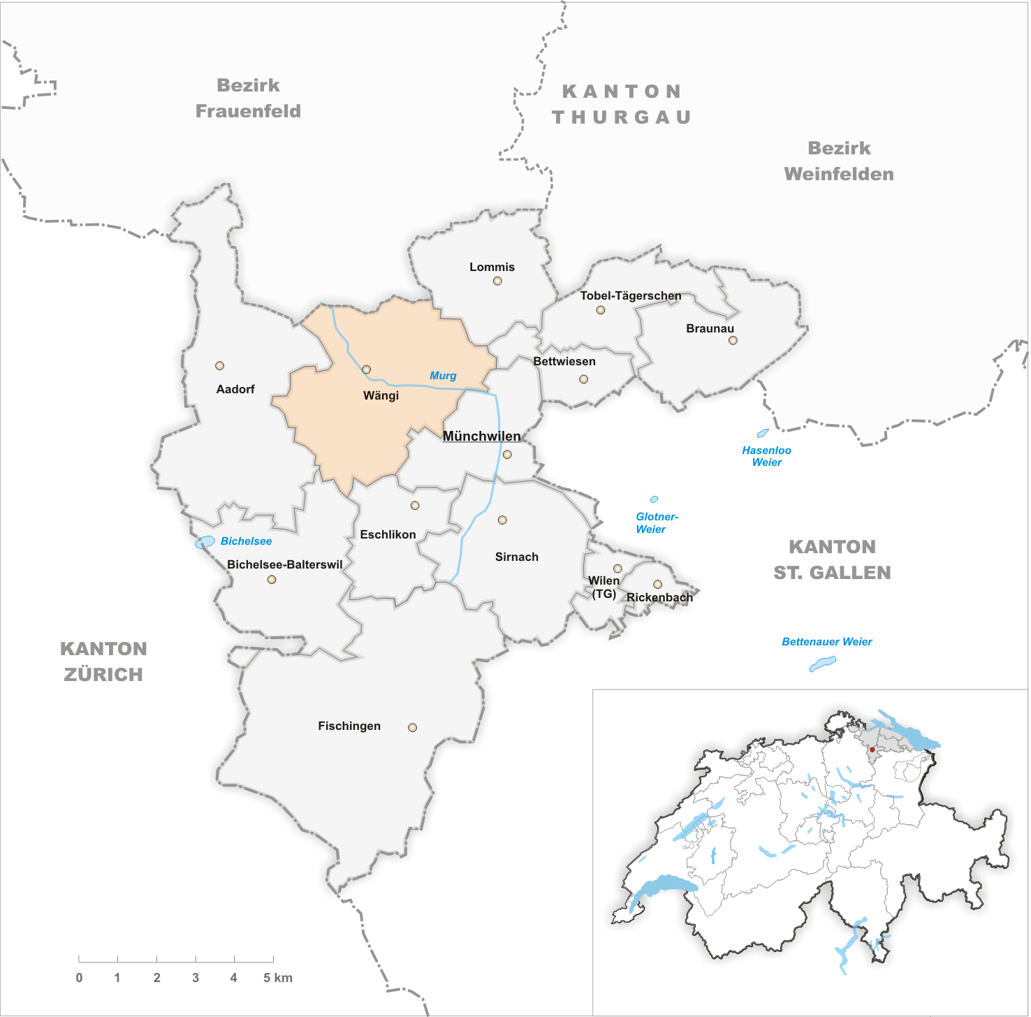 Municipality Wängi